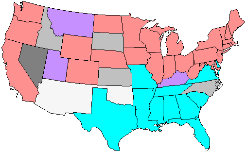 Composition of the 56th United States Senate in terms of political party by state. Self-made, using the map of state outlines from "Map of US Senate membership 2004-2006.png", also on Wikimedia Commons. Uploaded 31 August 2005.